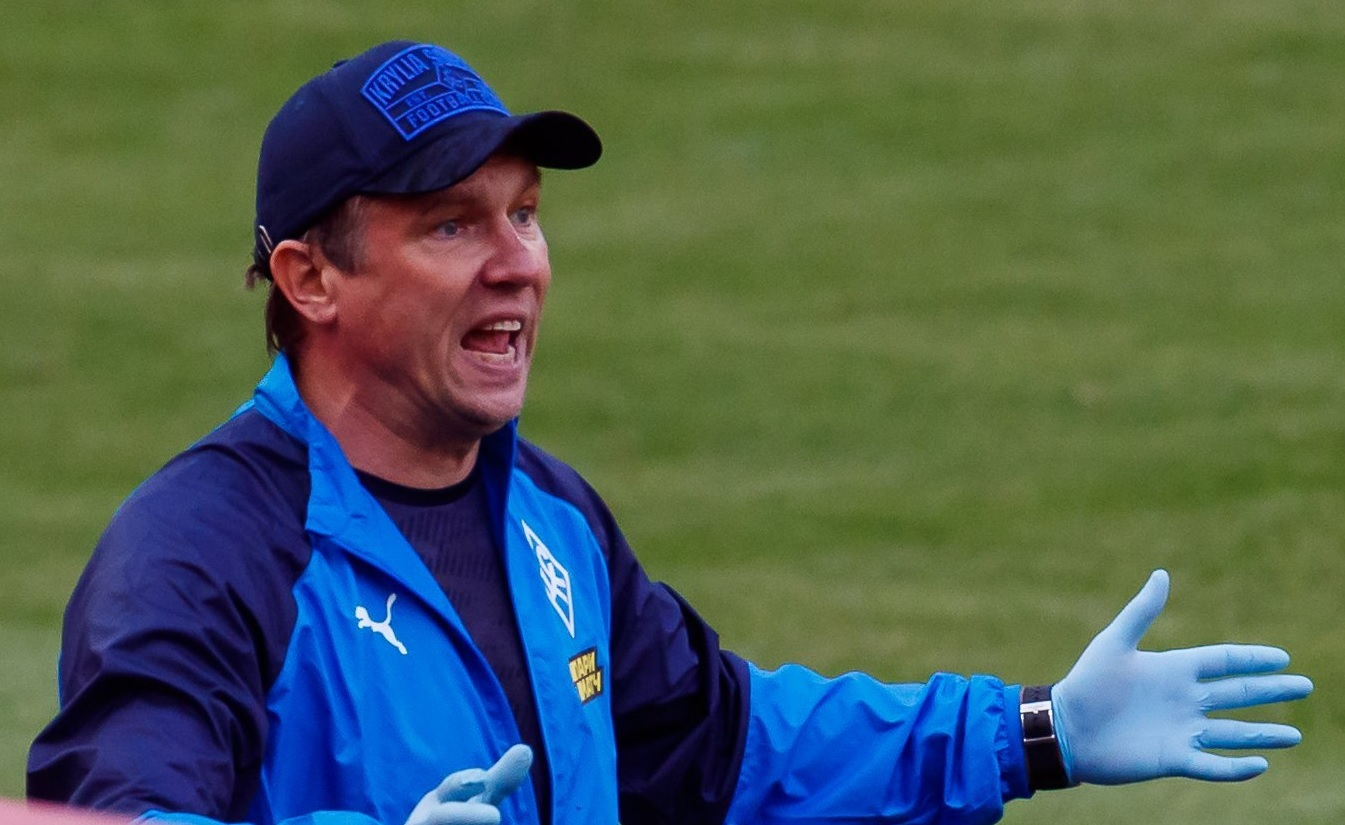 Andrei Talalayev coaching PFC Krylia Sovetov Samara in a game against FC Lokomotiv Moscow.